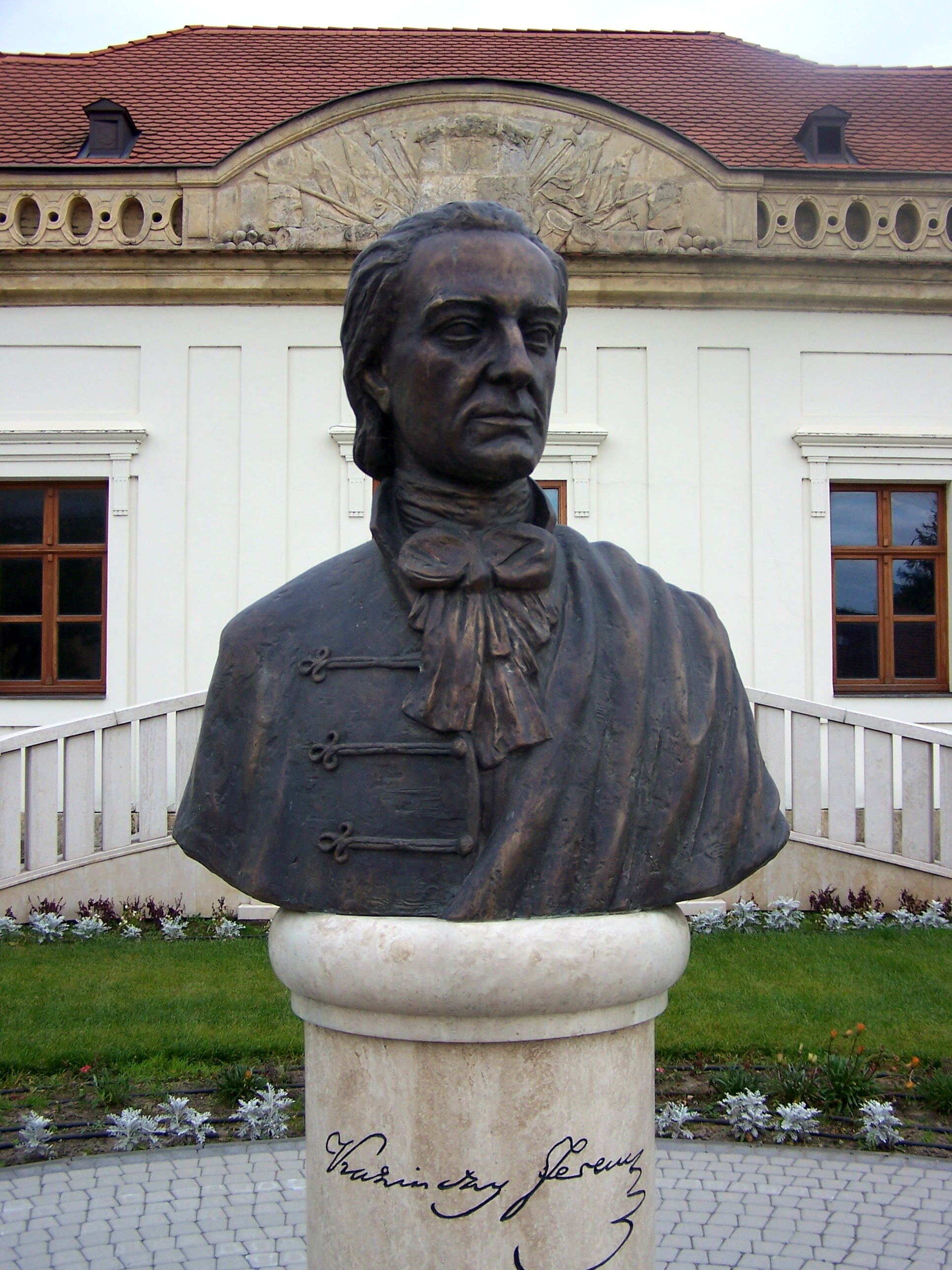 Statue of Kazinczy Ferenc in front of Beleznay Mansion, Bugyi